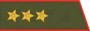 Rank insignia “Colonel general” (OF8) Ground forces/Army – cola strap basic uniform, Russian Armed Forces from 2010 - today).